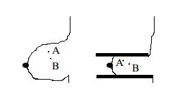 scematic picture of breast compromising at mammogrphy